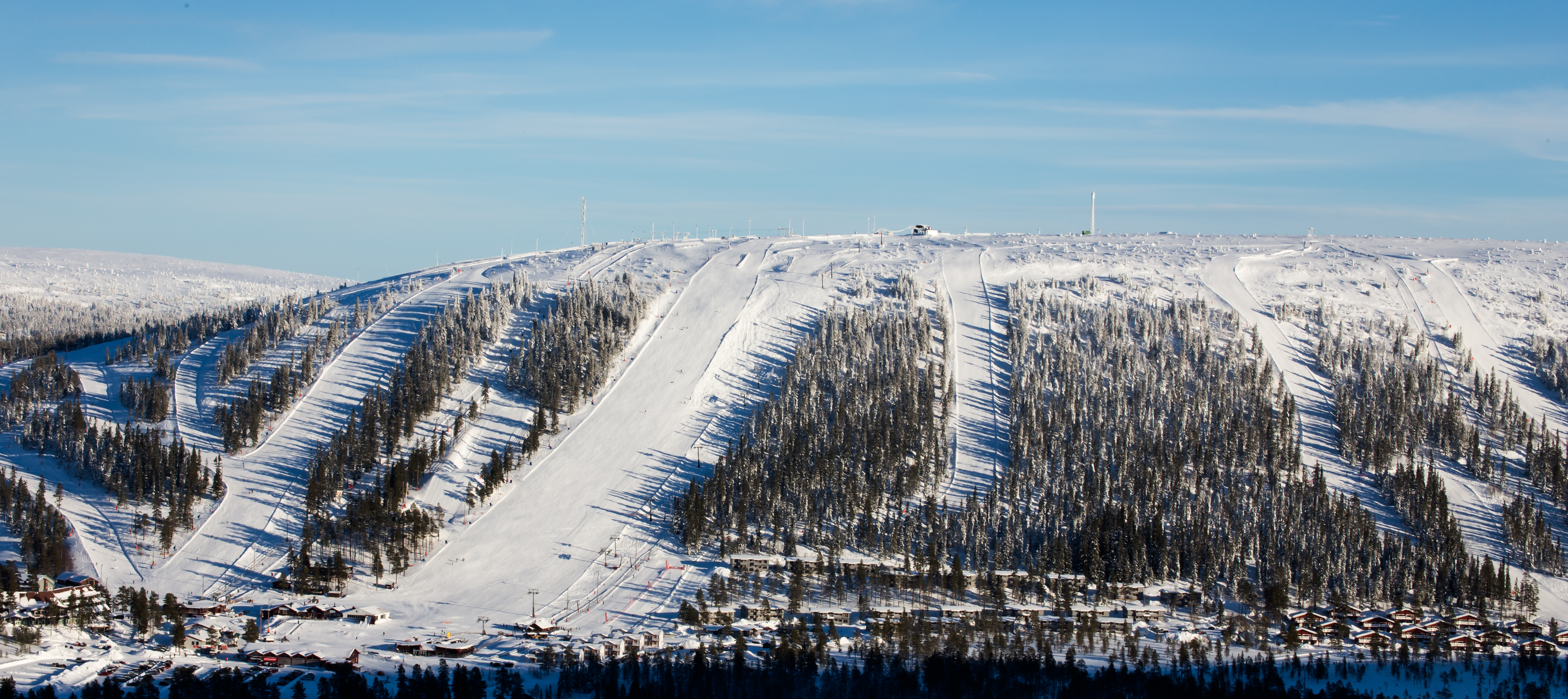 Swedish ski resort Tandådalen seen from neighbouring ski resort Hundfjället.